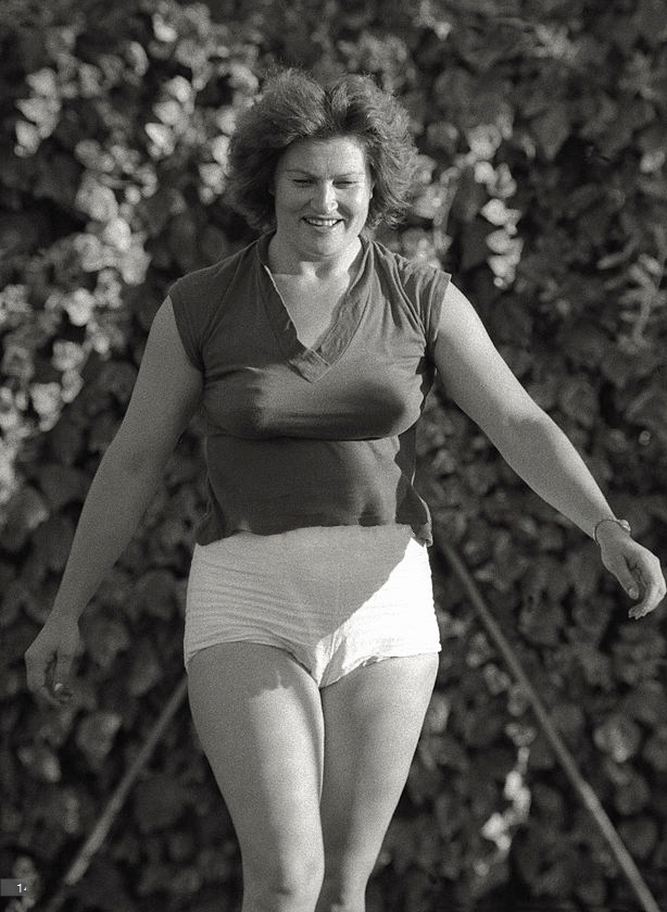 Nina Ponomaryova at the 1960 Olympics